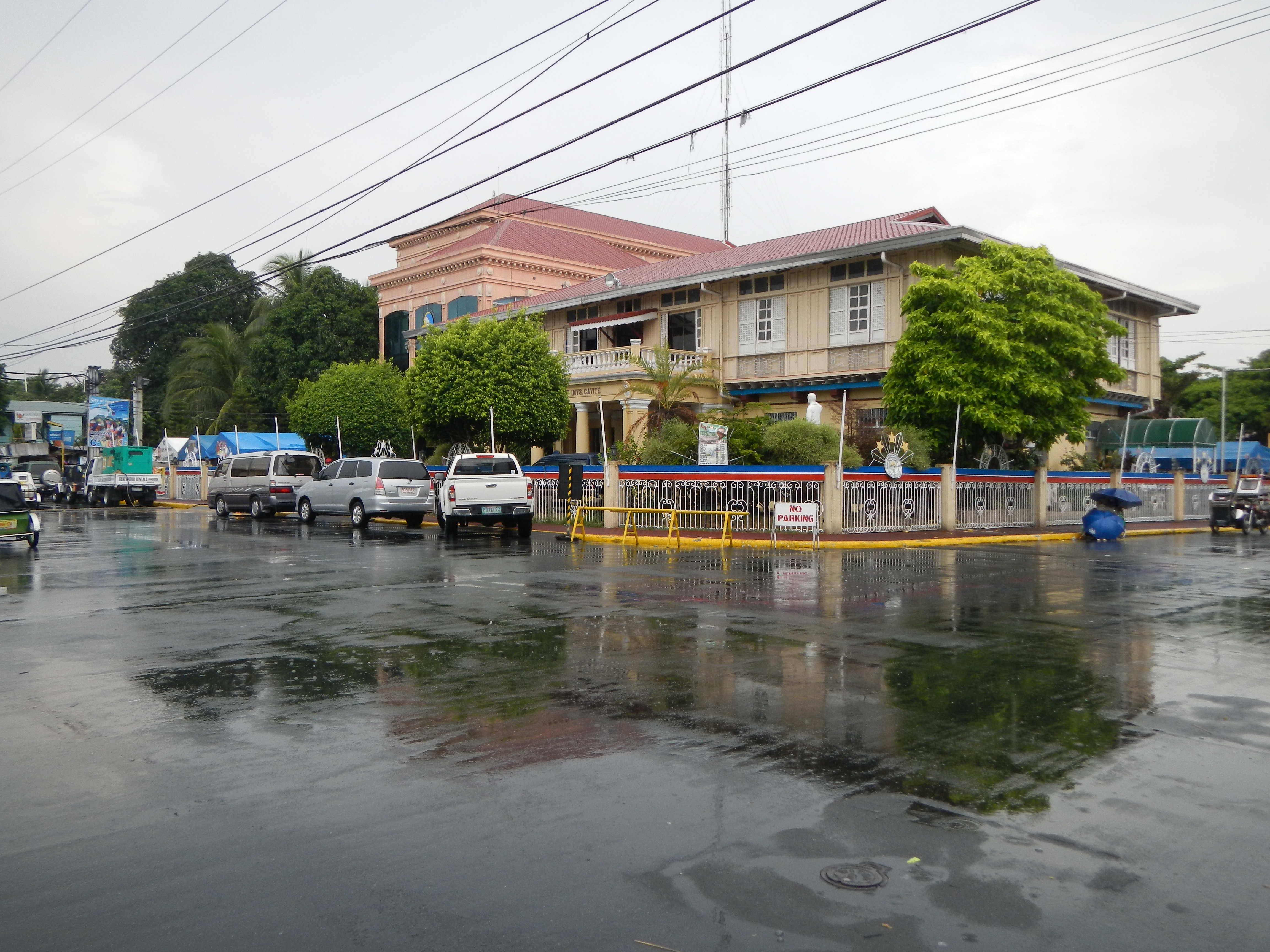 Imus Town Public Plaza - Gen. Licerio Topacio Park [1] Coordinates: 14°25'47"N 120°56'11"E ---- Licerio Topacio[2] (1839–1925) was a leader in the Philippine Independence movement. Born in Imus, Cavite, on August 27, 1839 to Miguel Topacio, a former gobernadorcillo, and Marta Cuenco, the young Licerio finished his studies in Imus. He was not able to pursue higher education in Manila. But he kept on developing his inborn talent by self-study, and when the Revolution broke out he showed exceptional leadership in battle. After the Philippine-American War Topacio was twice appointed as municipal president of Imus. He died on April 19, 1925 at the age of 86.[3] Gen. Licerio Topacio Park [4] [5] L. Topacio: builder of Zapote Fort Great Great Grandfather of Christopher Castaneda Sayoc The Manila Times — Wednesday, August 30, 1967 Hall of Fame, By Sol H. Gwekoh [6] The new Imus Public Plaza named in honor of Gen. Licerio Topacio was formally inagurated on May 23, 2009 by Governor Ayong Maliksi, Congressman Pidi Barzaga, Mayor Manny Maliksi and Hon. Kim Kyu Bae, mayor of the County of Yeocheon of Geyeonggi province of the Republic of South Korea.[7]